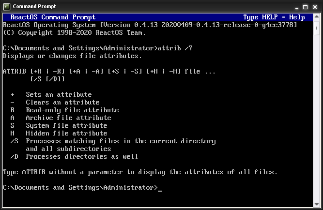 attrib command on ReactOS-0.4.13